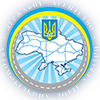 State Agency of Automobile Roads of Ukraine Ukravtodor (Auto-Roads)